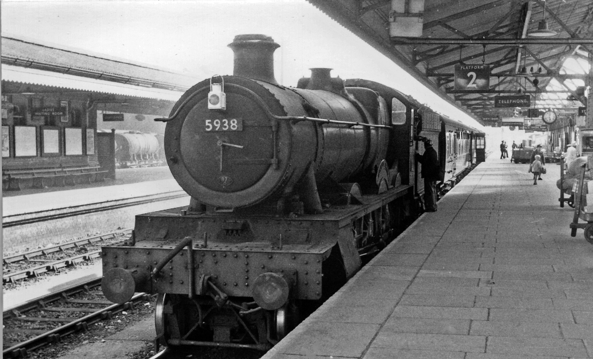 Stopping train from Swansea at Carmarthen station. View southward, towards Carmarthen Junction - thence east to Llanelly, Swansea etc., west to Whitland and Pembroke Dock/Milford Haven/Neyland and Fishguard Harbour; ex-GWR South Wales/West Wales main line. In the northerly direction, in 1962 trains still ran to Llandilo (until 9/9/63) and to Aberystwyth (until 22/2/65, goods to Felin Fach until 1/10/73), but since then it has been a terminal station. On the 16.40 from Swansea, 4-6-0 No. 5938 'Stanley Hall' (built 7/33, withdrawn 5/63) had been driven very hard and given us a lively run.